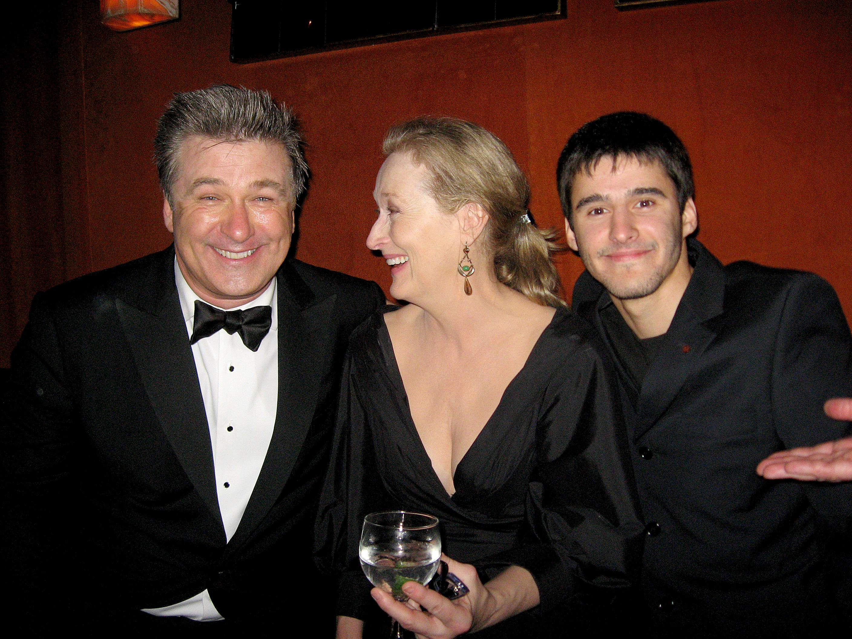 Alec Baldwin, Meryl Streep, Josh Wood attend 15th Annual Screen Actors Guild Awards after party held at Shrine Auditorium and Expo Hall, Los Angeles, California